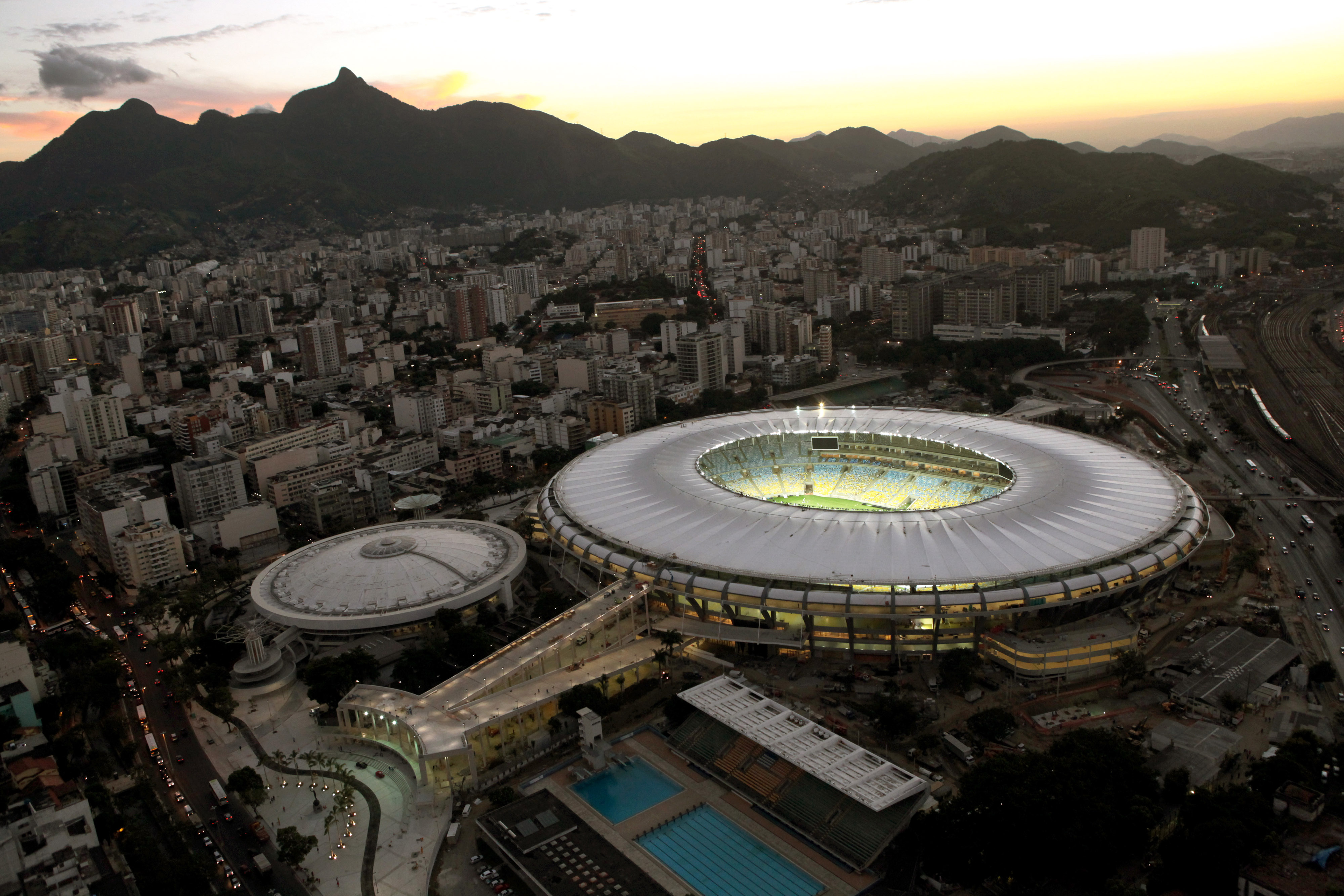 Estádio do Maracana - March 2013